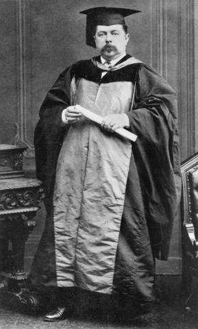 James George Beaney (1828 - 1891) whose bequest to the City of Canterbury allowed the building of the Beaney Institute, or Royal Museum and Art Gallery.